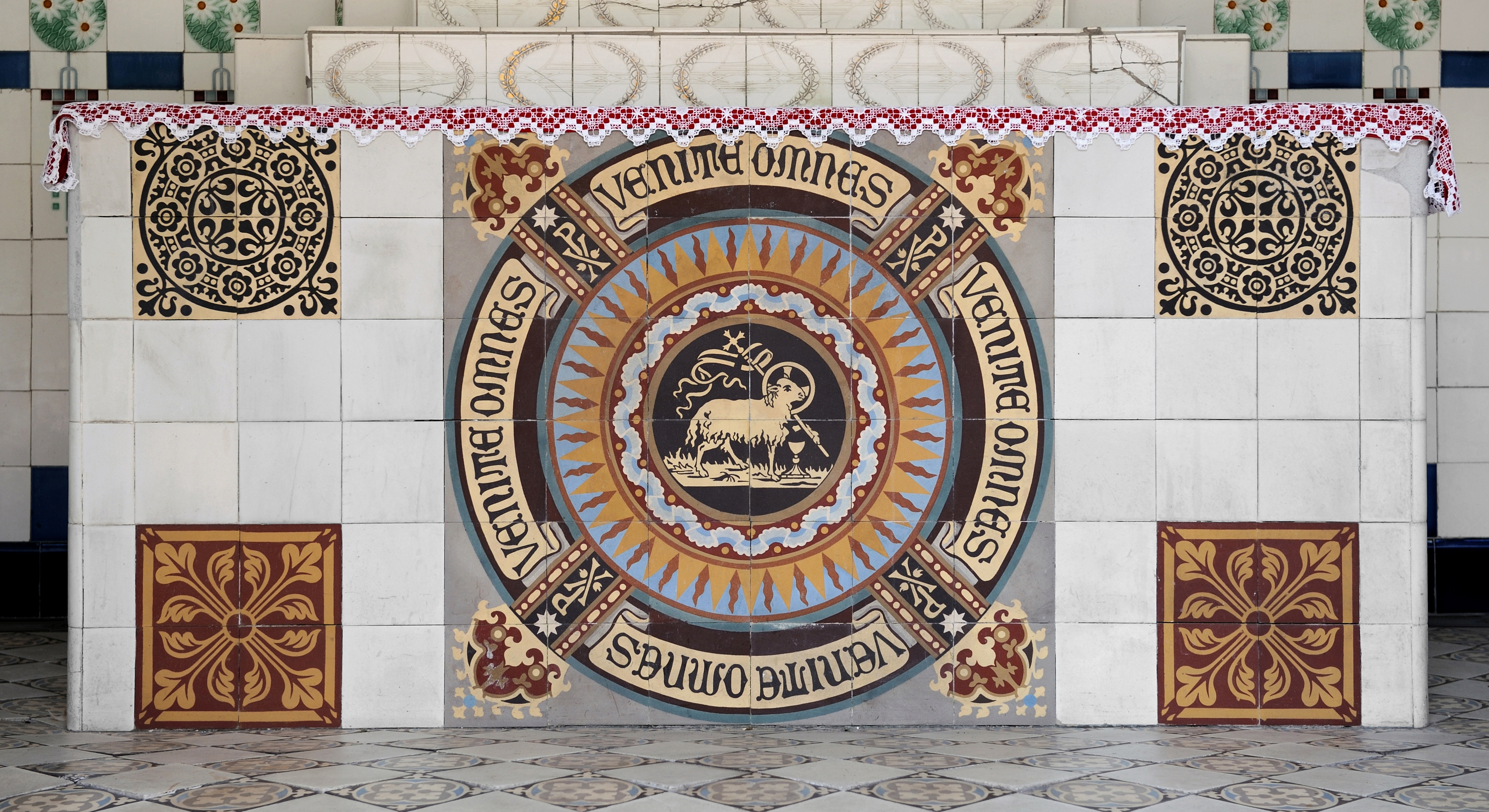 Kehlen, Luxembourg: altar of the chapel rue d'Olm, with the Agnus Dei (Lamb of God). Venite omnes, come all of you to me. The painting on tiles is by an unknown artisan/artist of the 19th century.